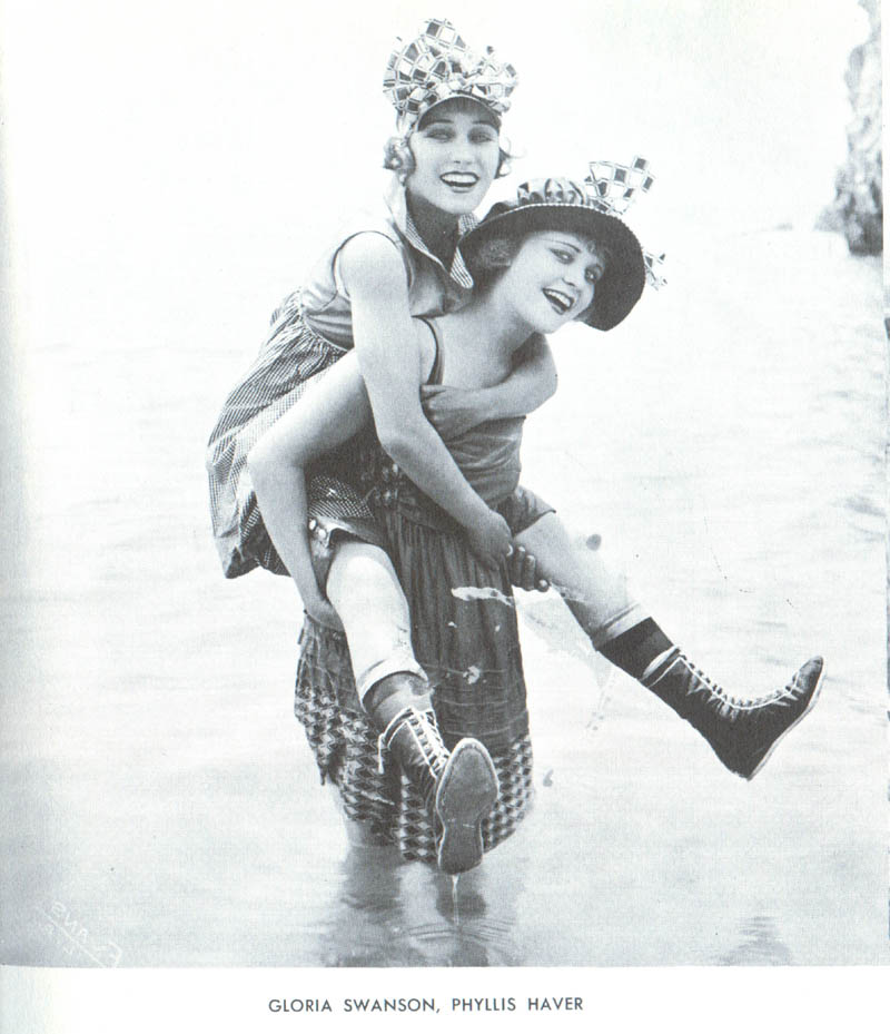 Gloria Swanson and Phyllis Haver were Mack Sennett's bathing beauties.